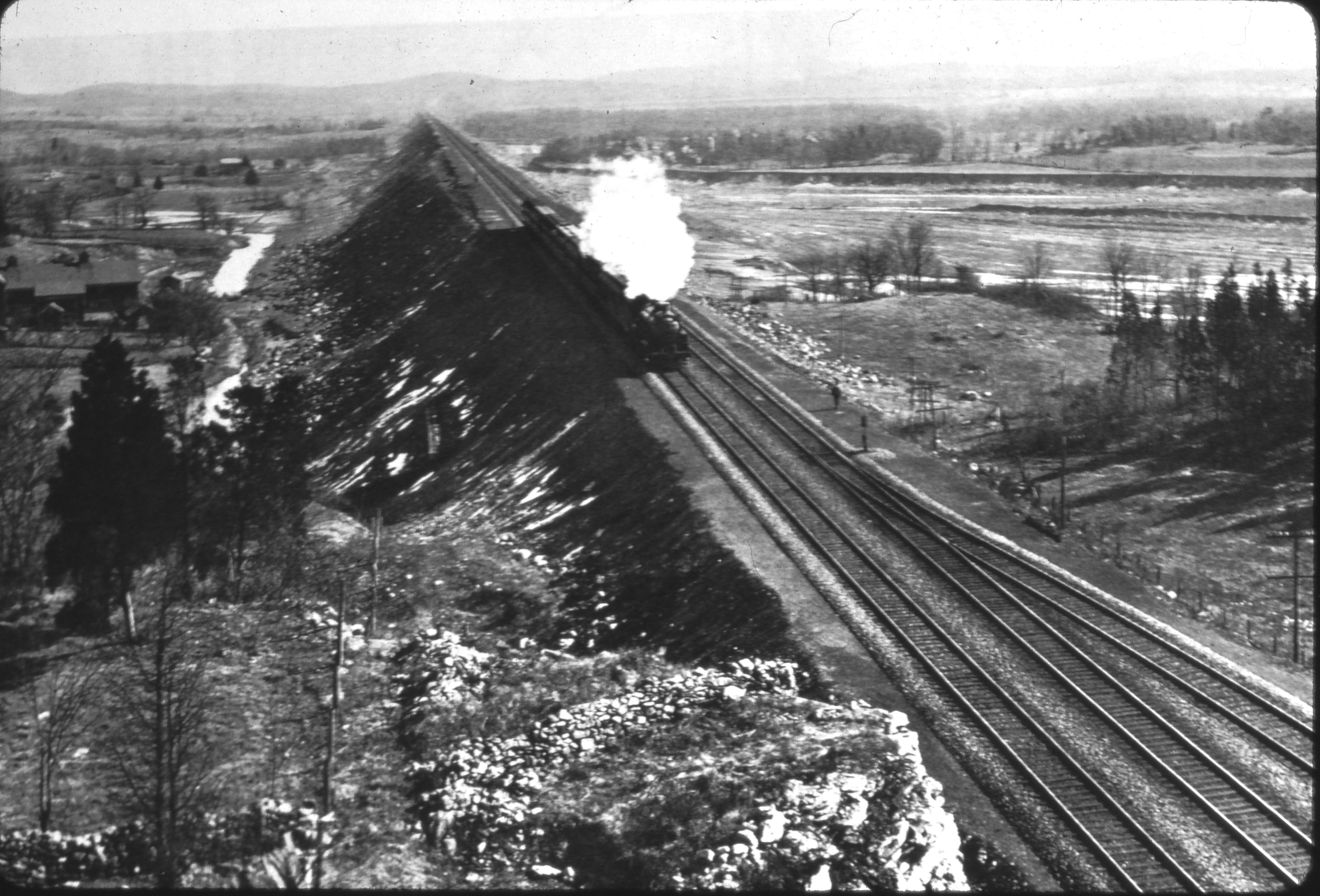 Wally From Columbia (NJ) (talk) 02:52, 28 November 2010 (UTC)